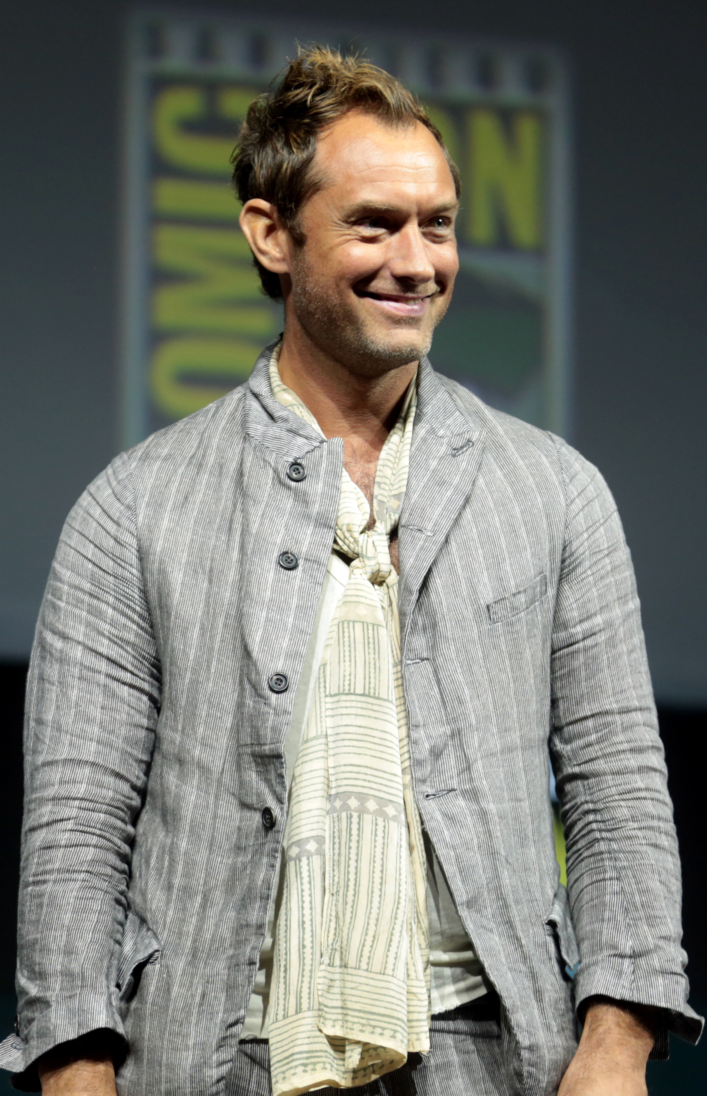 Jude Law speaking at the 2018 San Diego Comic-Con International in San Diego, California.